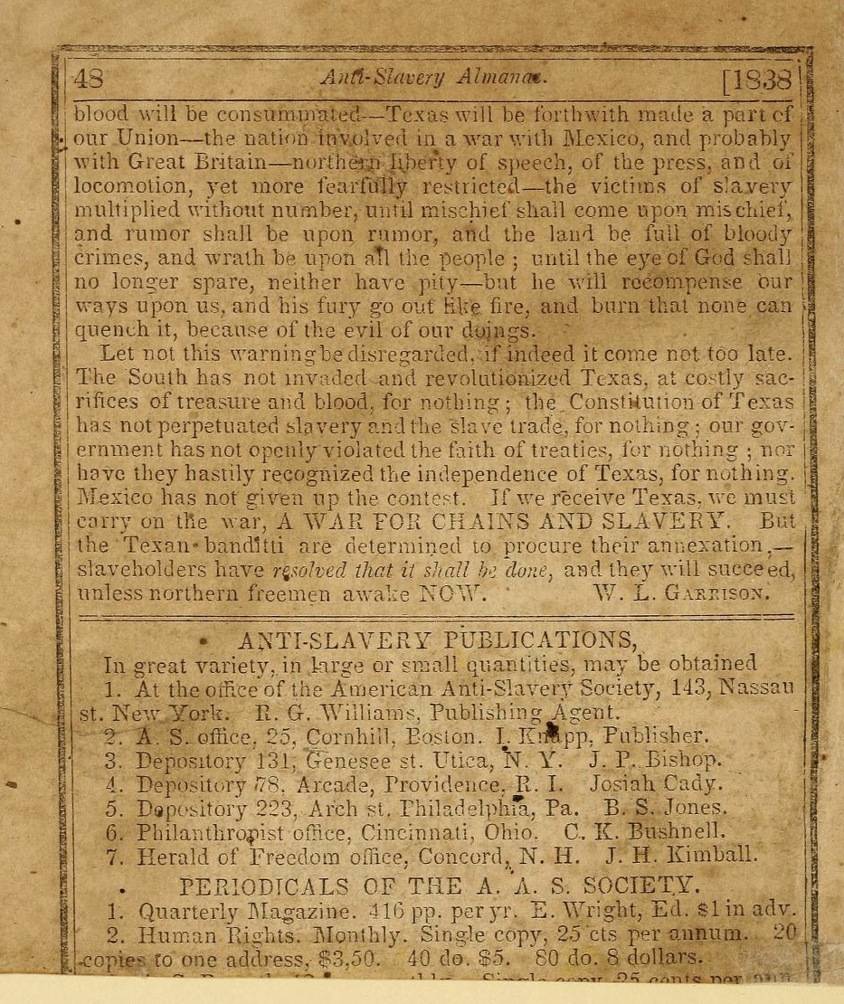 The Boston office of the American Anti-Slavery Society has the same address as Isaac Knapp's shop. Page from the Anti-Slavery Almanac for 1838, which Knapp published.